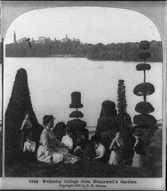 Hunnewell Arboretum, view toward Wellesley College (1901). 8 women, sitting and standing, amid sculptured hedges of Hunnewell Arboretum; in background, across lake, view of college.